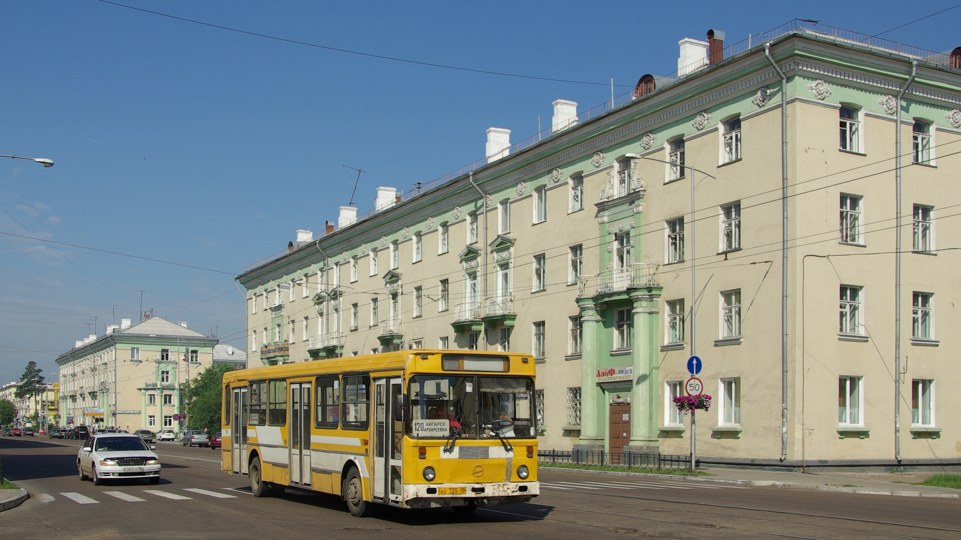 LiAZ 5256 in Angarsk